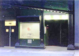 Soho. Rep's Walkerspace Theatre